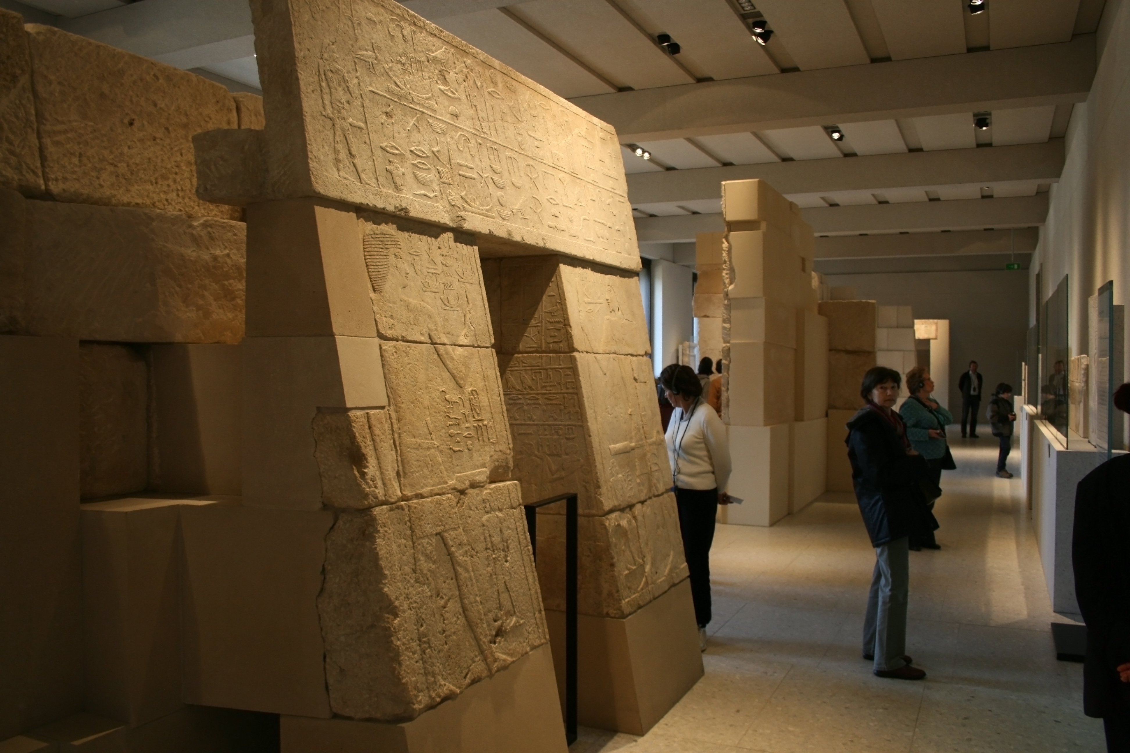 Detail of the Egyptian courtyard